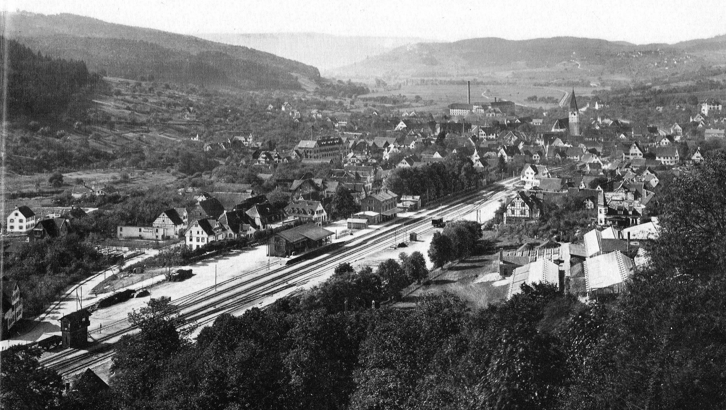 View from Lorch monastery onto the town, train station in foreground, ca. 1895